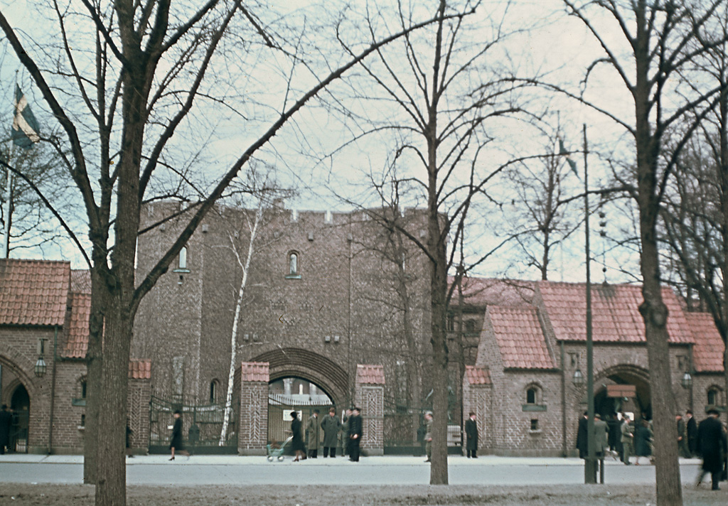 Stockholm Olympic Stadium in the eastern part of Stockholm city, built in 1910–1912. The main entrance.